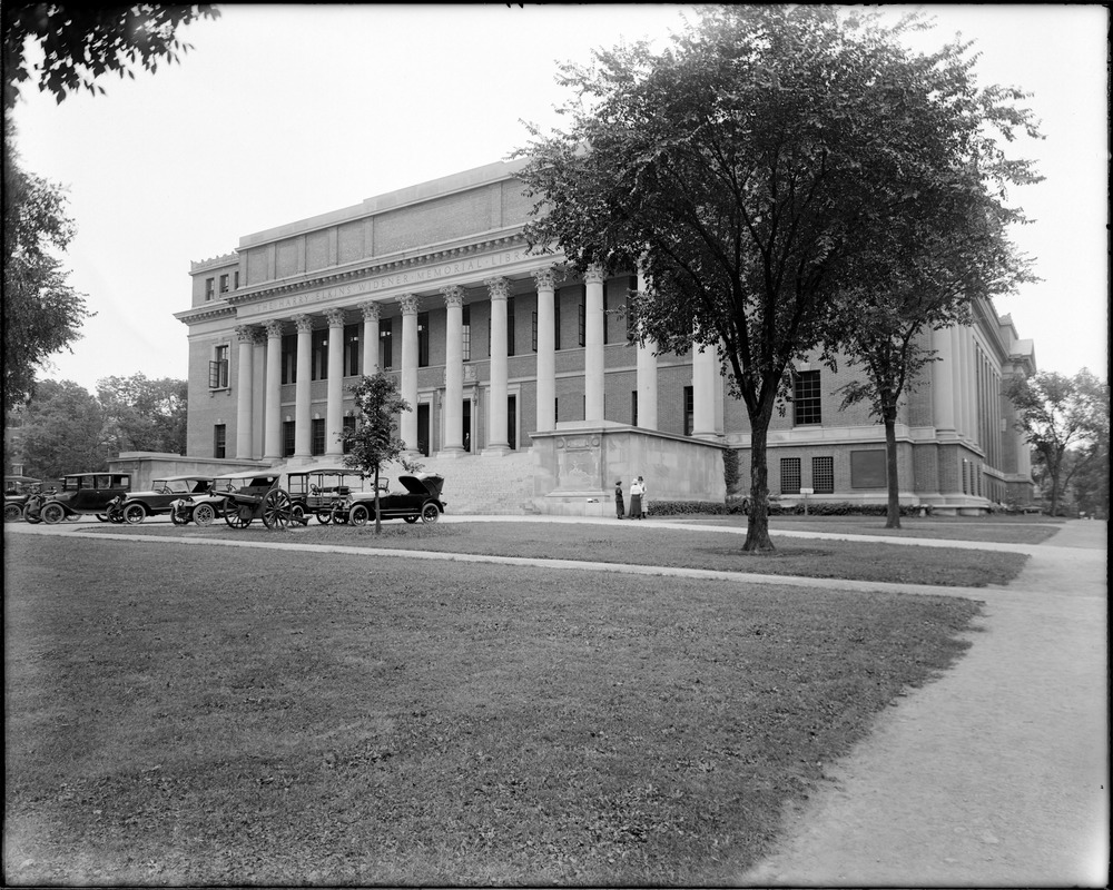 Front of Harvard University's Widener Library, with artillery piece in front and plaque in memory of Gore Hall (Harvard College library)